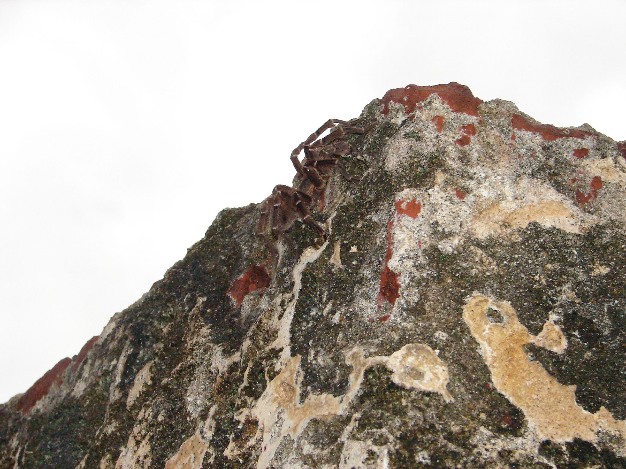 Tarantula (Cyrtopholis Portoricae) at the El Morro ruins in Old San Juan Puerto Rico.